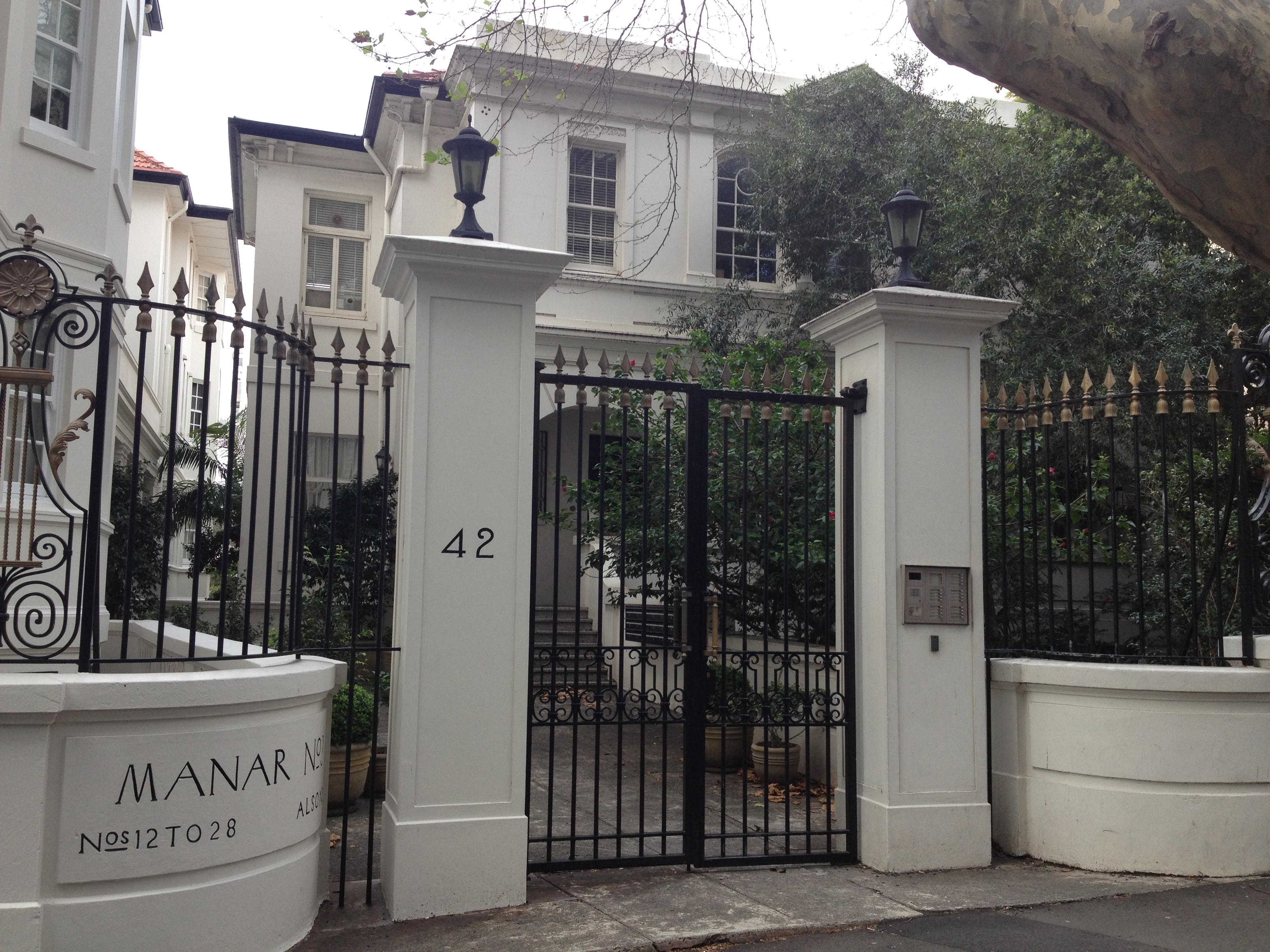 Manar, an apartment complex on Macleay Street Potts Point, Sydney, Australia.